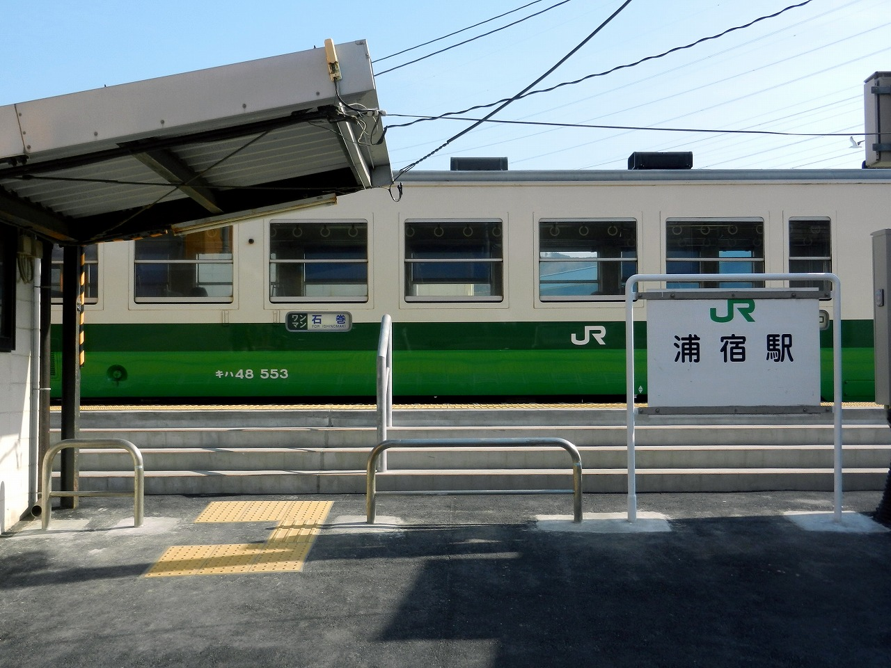 JR East Ishinomaki line Urashuku station entrance